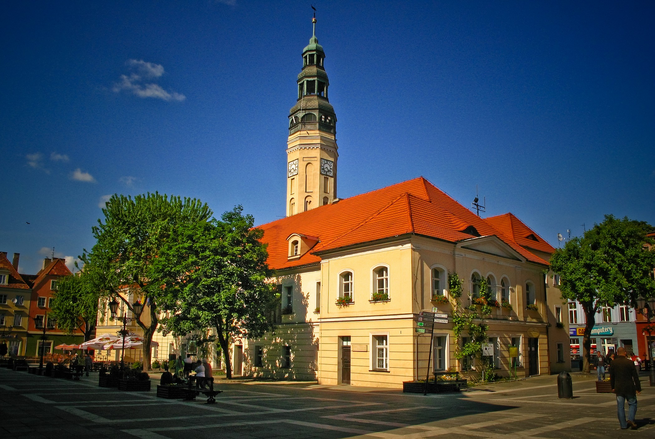 city hall at the evening